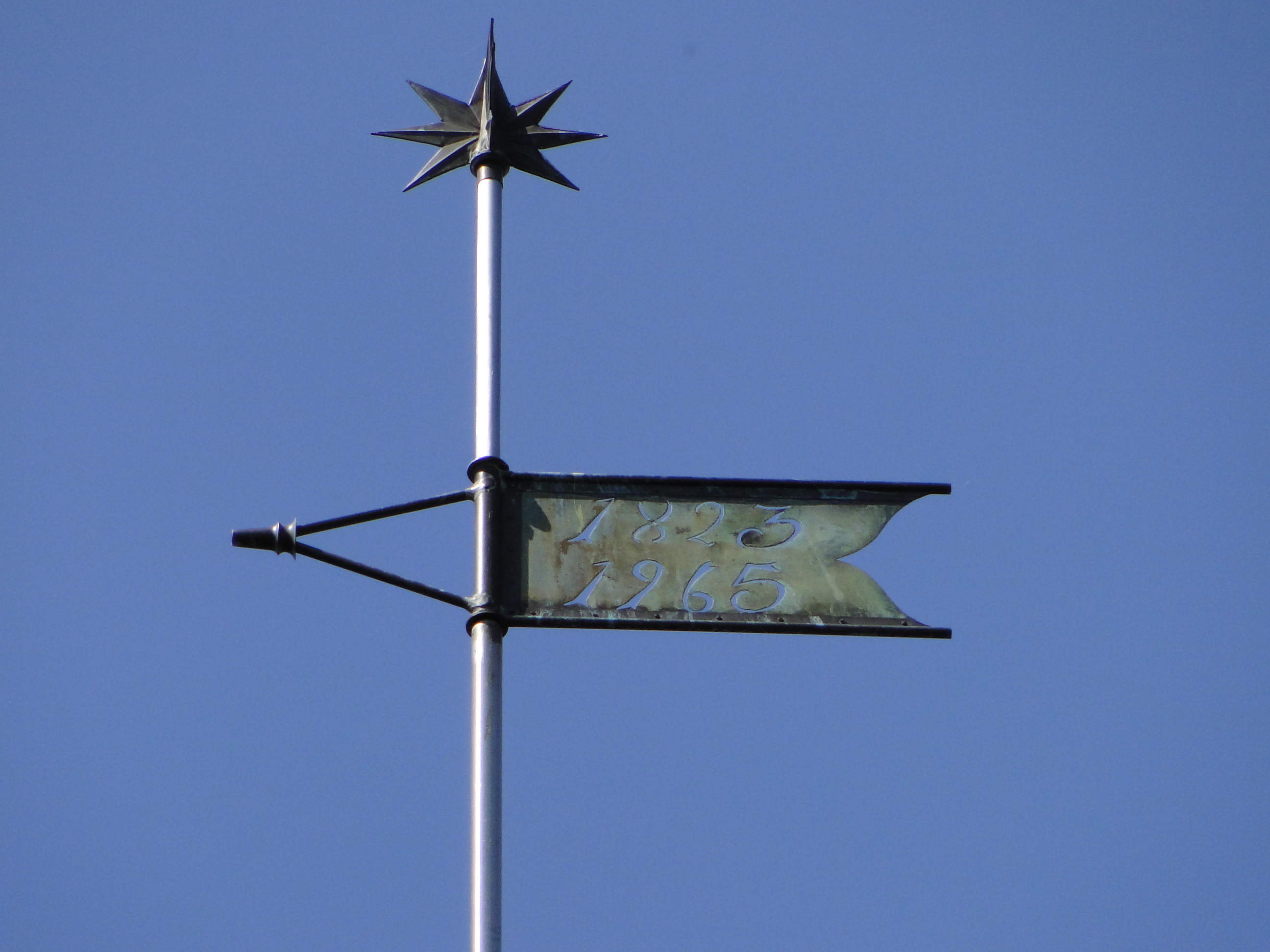 Church in Mildenitz, district Mecklenburg-Strelitz, Mecklenburg-Vorpommern, Germany